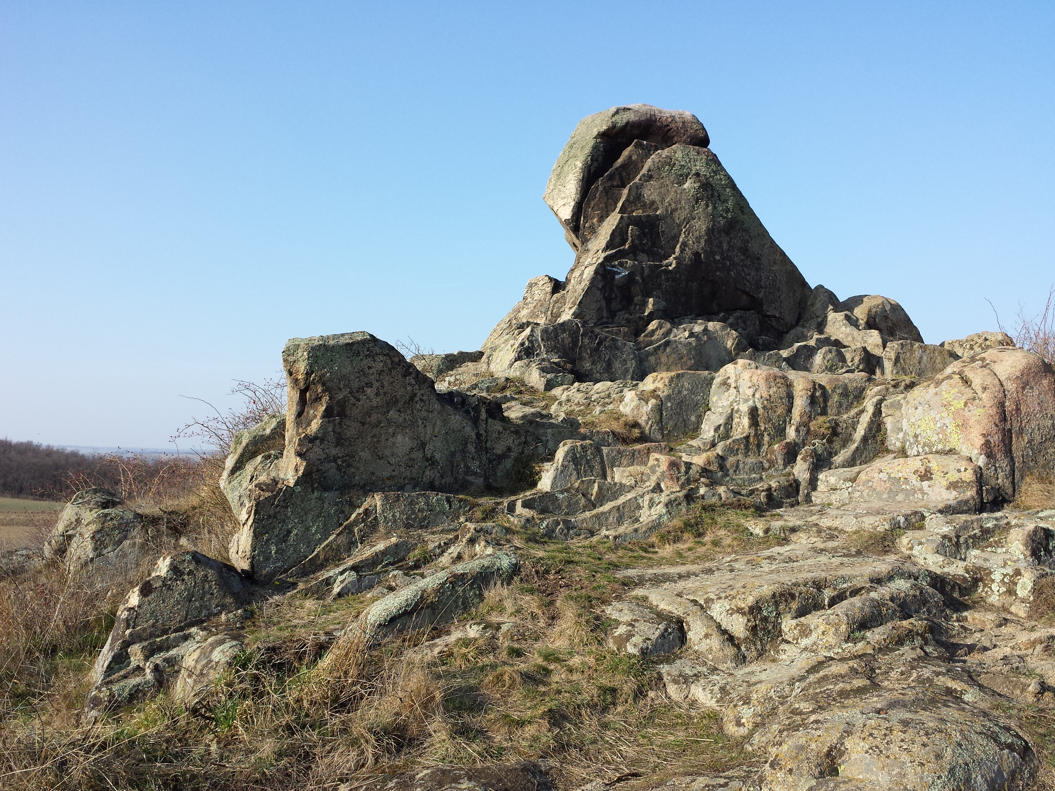 Nature reserve Kogelsteine-Fehhaube, district Horn, Lower Austria - ca. 330 m a.s.l. Kogelsteine (rocks) This media shows the nature reserve in Lower Austria with the ID 68. This media shows the natural monument in Lower Austria with the ID HO-049.